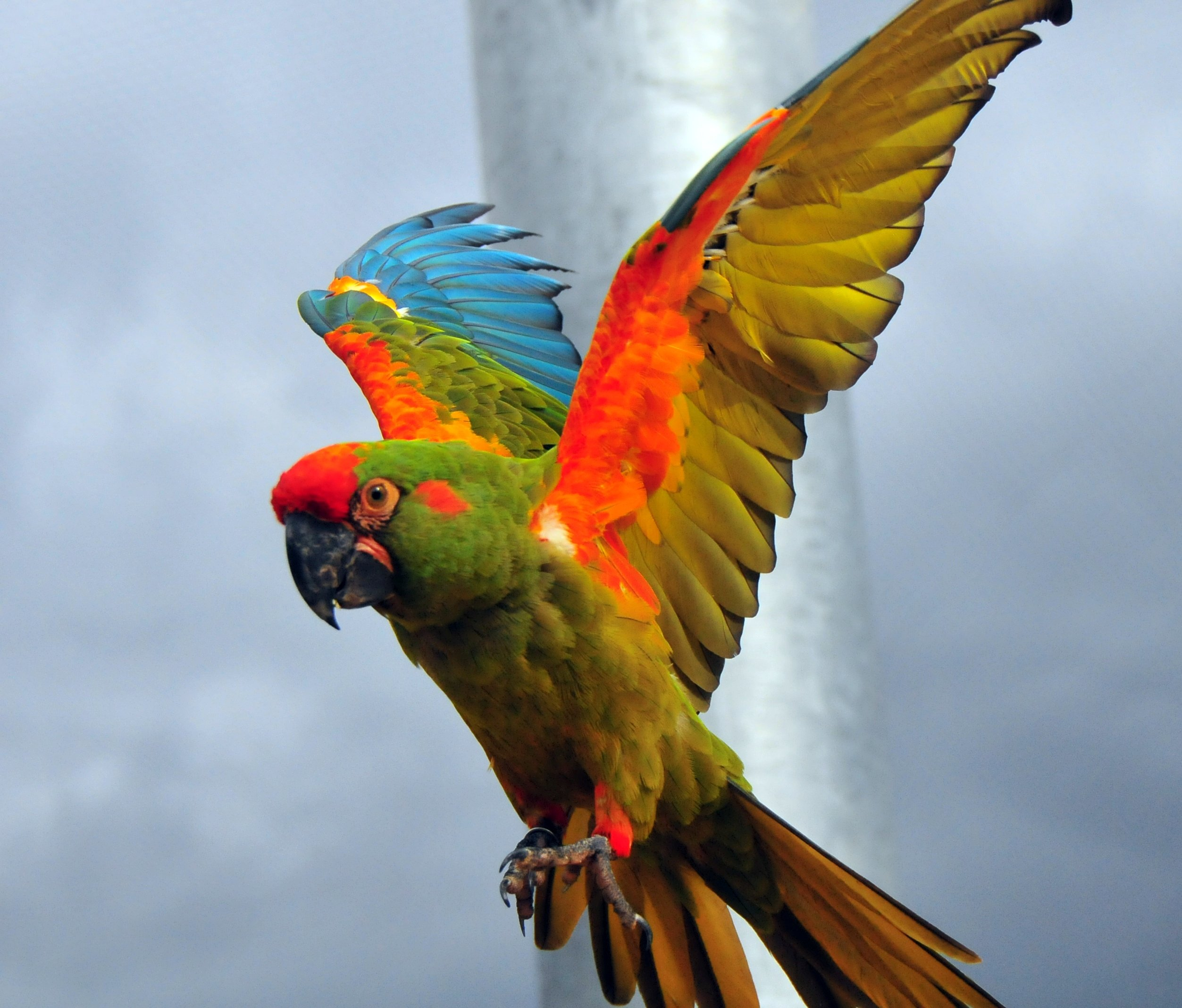 A Red-fronted Macaw flying at Doué la Fontaine zoo, France.